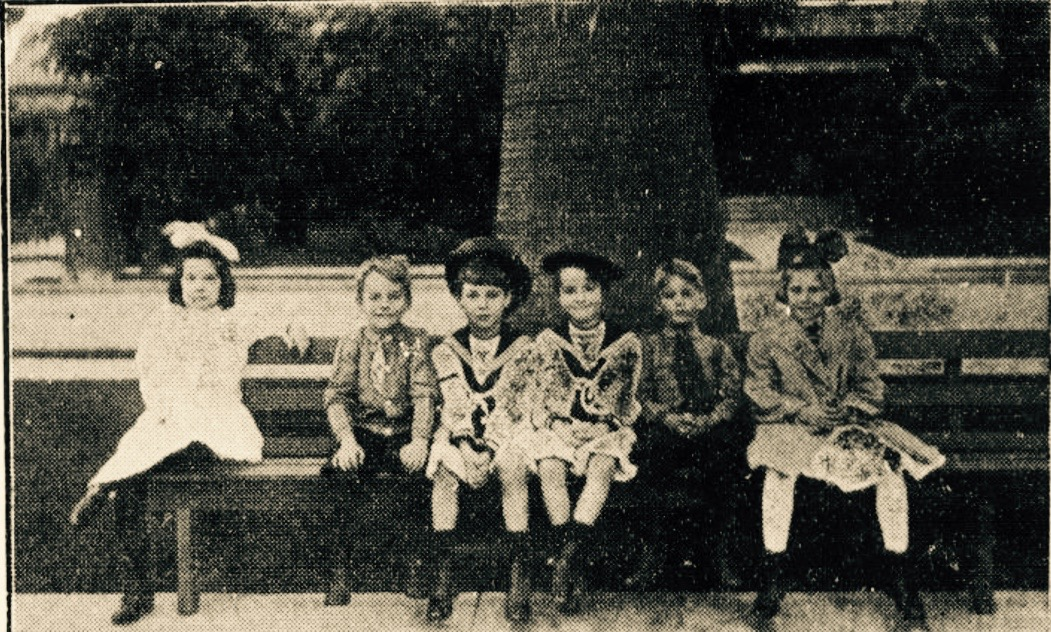 Well-dressed children pose on a bench in St. James Park, Los Angeles, 1909, in the upscale West Adams district (in the area later described as University Park).